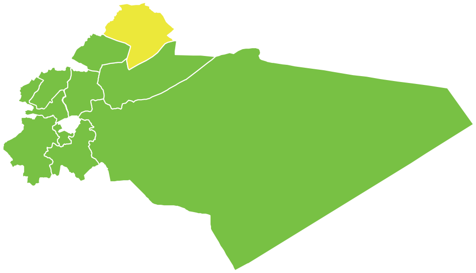 Al-Nabk District, Syrian governorate of Rif Dimashq.